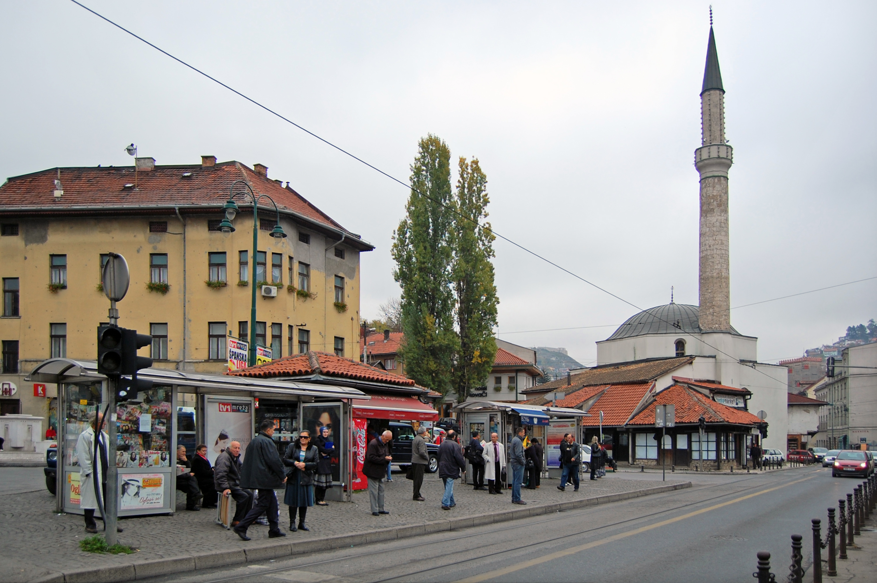 Tram stop Baščaršija in Sarajevo